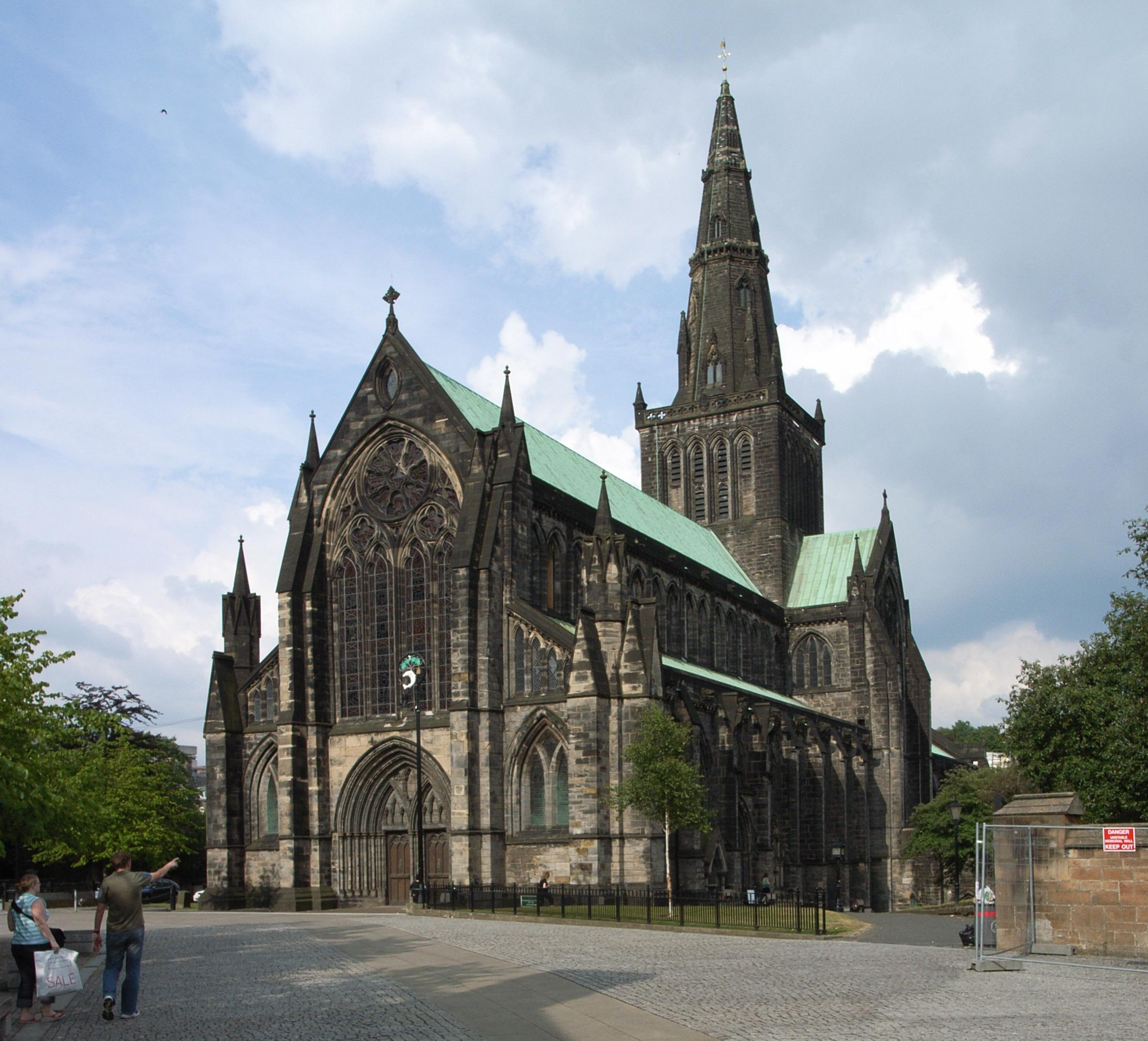 Glasgow Cathedral (built 13th century, tower 15th century)